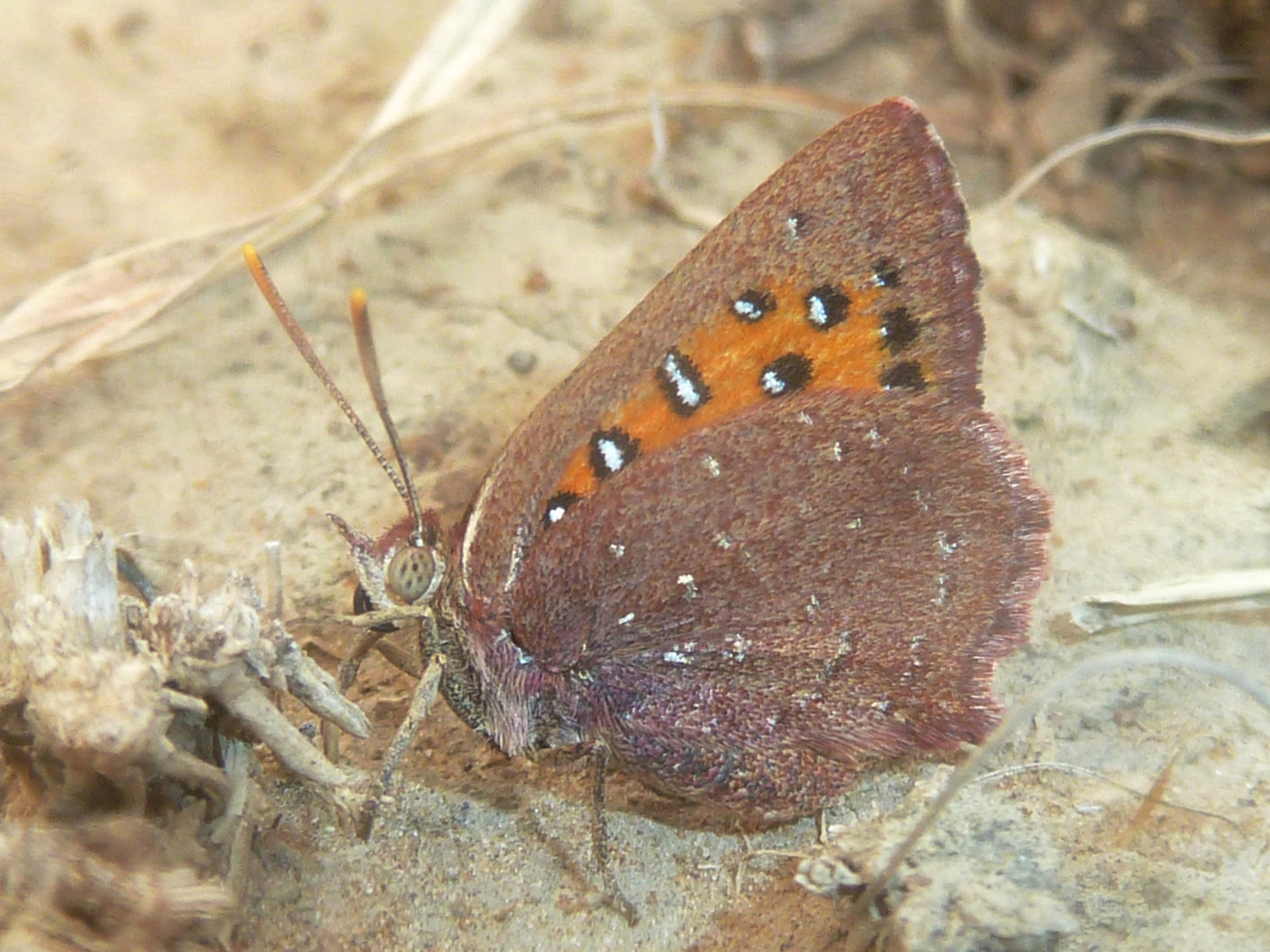 A male Aranda copper in highveld grassland near Tweeling, Free State, South Africa. Males can be distinguished by the little tails on the hindwing, which is unusual for the genus.